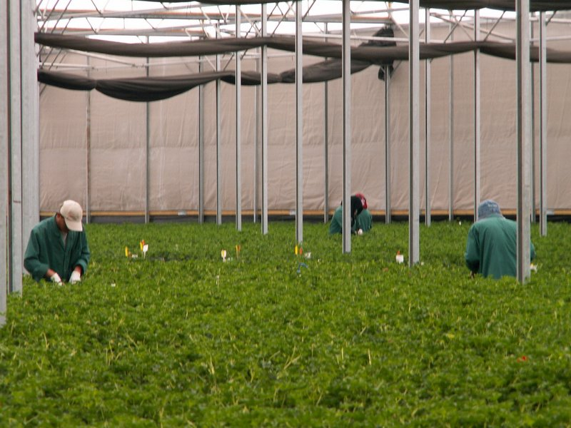 Stock plants for the harvest of Pelargonium cuttings, variety Decora Datum Sommer 2005 Autor Martin Fischer, eigenes Photo